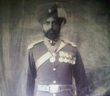 Subedar-Major (Hon. Captain) Mihr Din Sardar Bahadur, O.B.I., I.D.S.M., M.V.O.